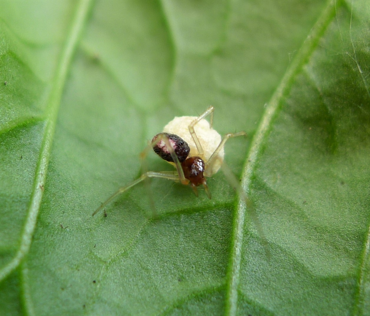 Cradley, Malvern, Worcs. SO729470